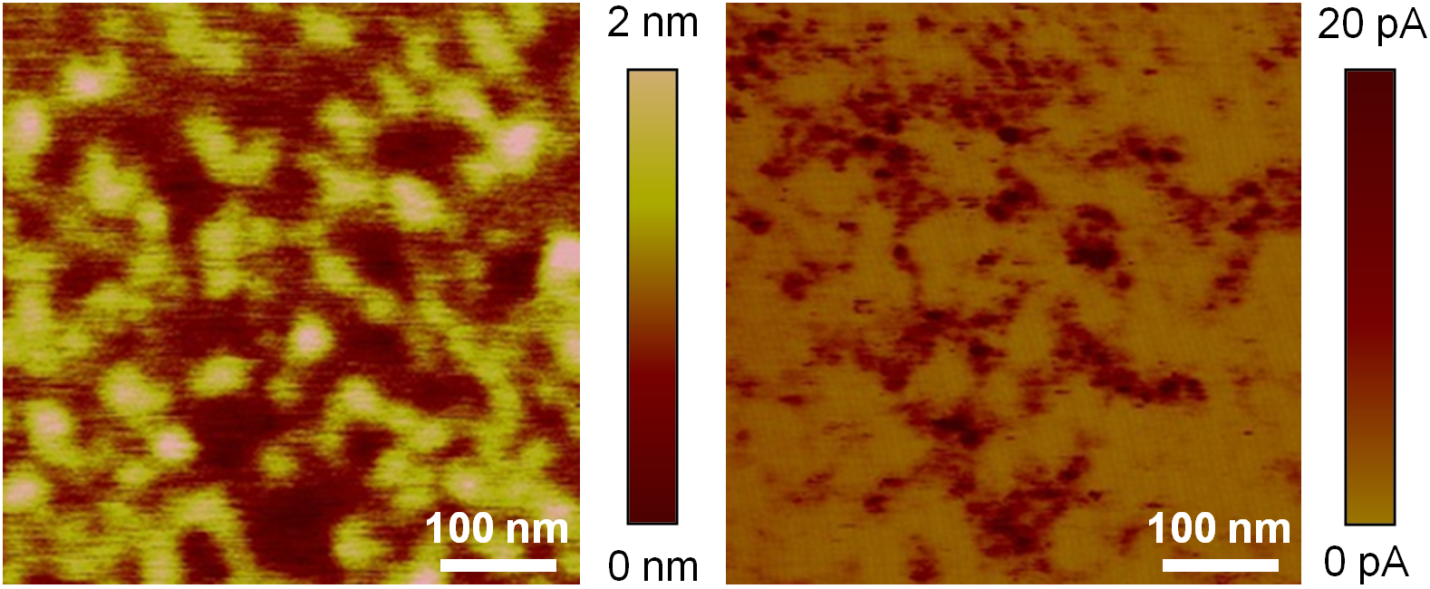 Topographic (left) and current (right) maps collected with CAFM on a polycrystalline HfO2 stack. The images show very good spatial correlation, and indicates that the grain boundaries are more conductive than the grains.